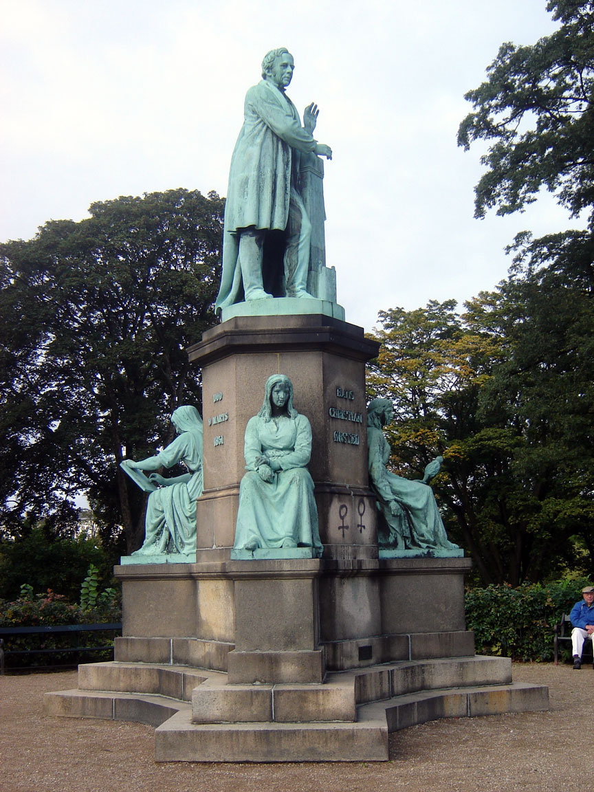 Statue of the famous physicist Hans Christian Ørsted in Copenhagen made by Jens Adolf Jerichau (1816-1883).